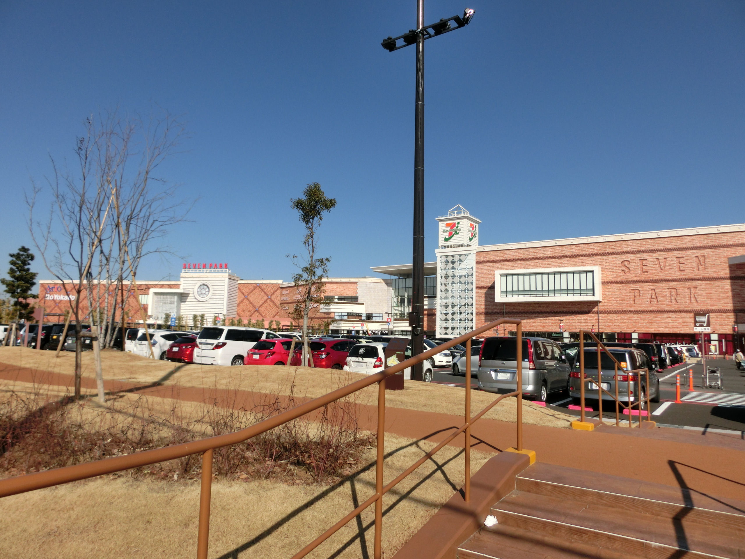 Sevenpark Ario Kashiwa